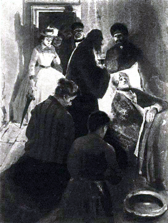 Sonya in the room of dying Marmeladov (drawing by Igor Grabar, 1894, an illustration for Fyodor Dostoyevsky's "Crime and Punishment")